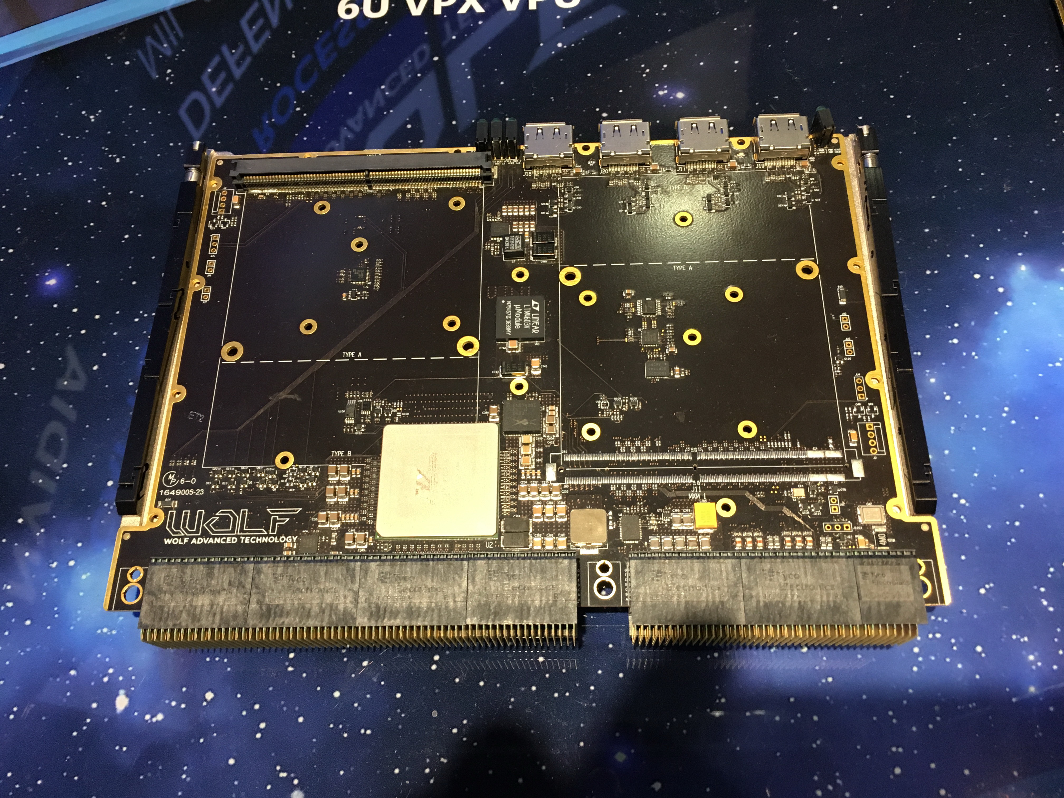 VPX 6U Module from Wolf Company on DSEI-2019